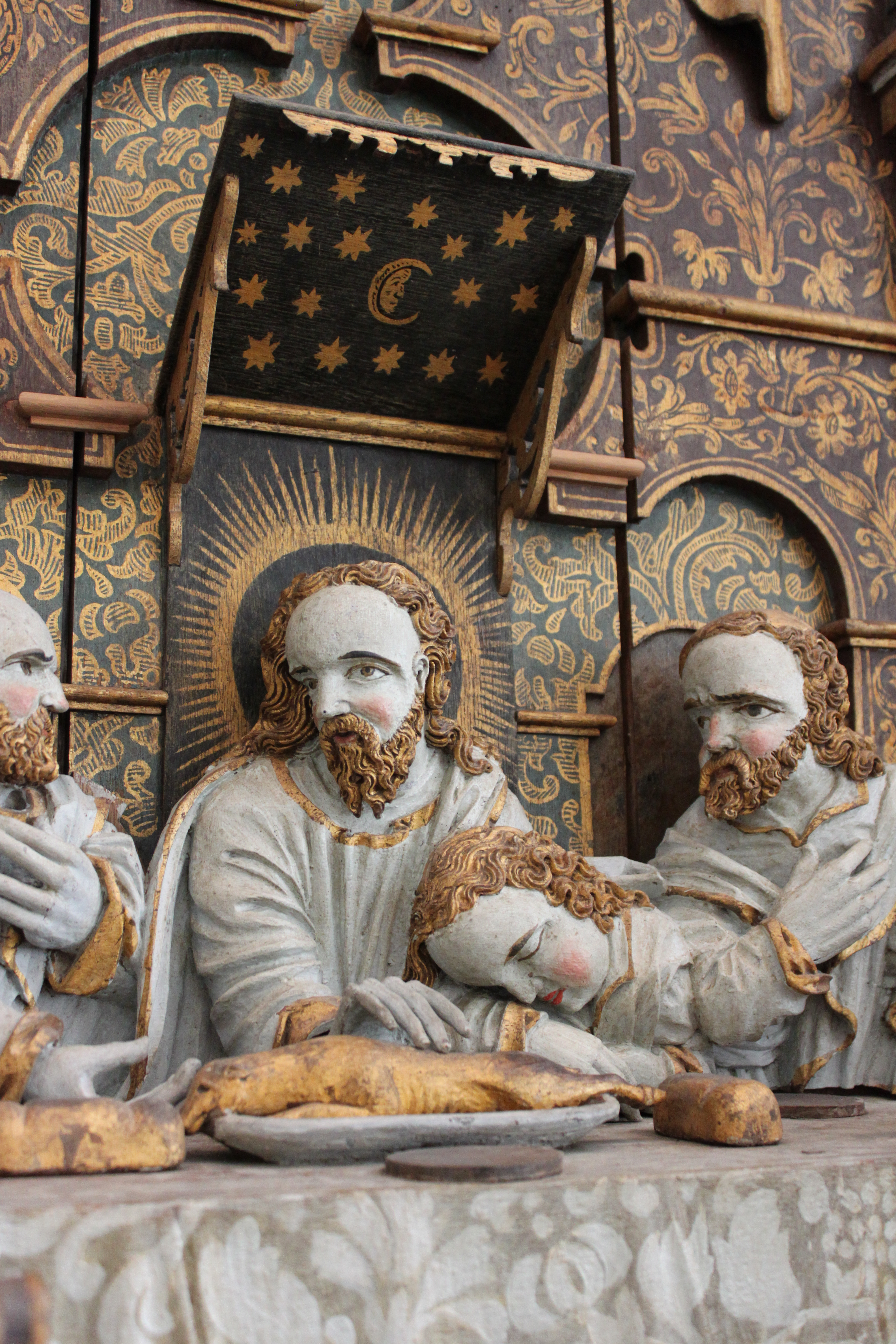 Altarpiece from the chapel in the manor of Orebygård, carved by Henrik Werner in 1638. The central scene is the Last Supper, with many vivid details.